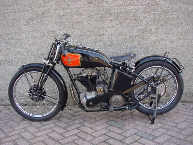 British Excelsior Manxman 250 cc motorcycle from 1936